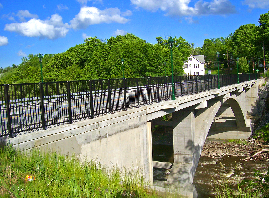 Photographed by Daniel Case 2006-05-21